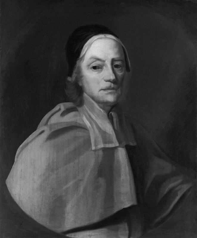 Sir John Maynard (1602-1690), was an English lawyer and politician, prominent under the reigns of Charles I, the Commonwealth, Charles II, James II and William III. Portrait given to NPG by Society of Judges and Serjeants-at-Law, 1877